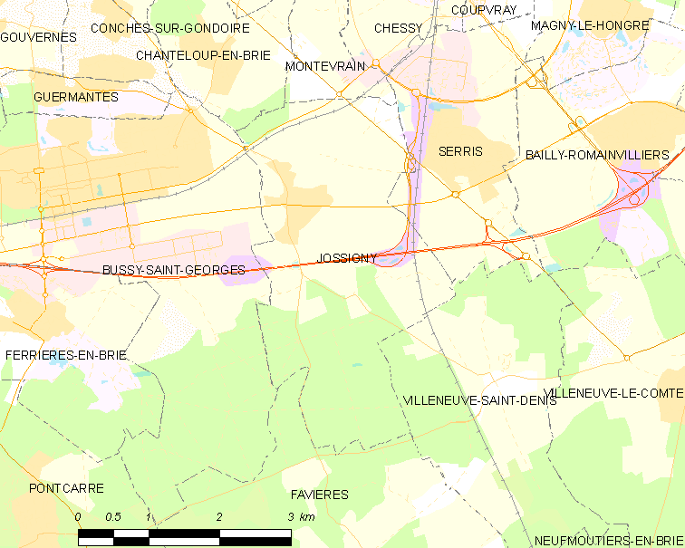 Map of French municipality Jossigny